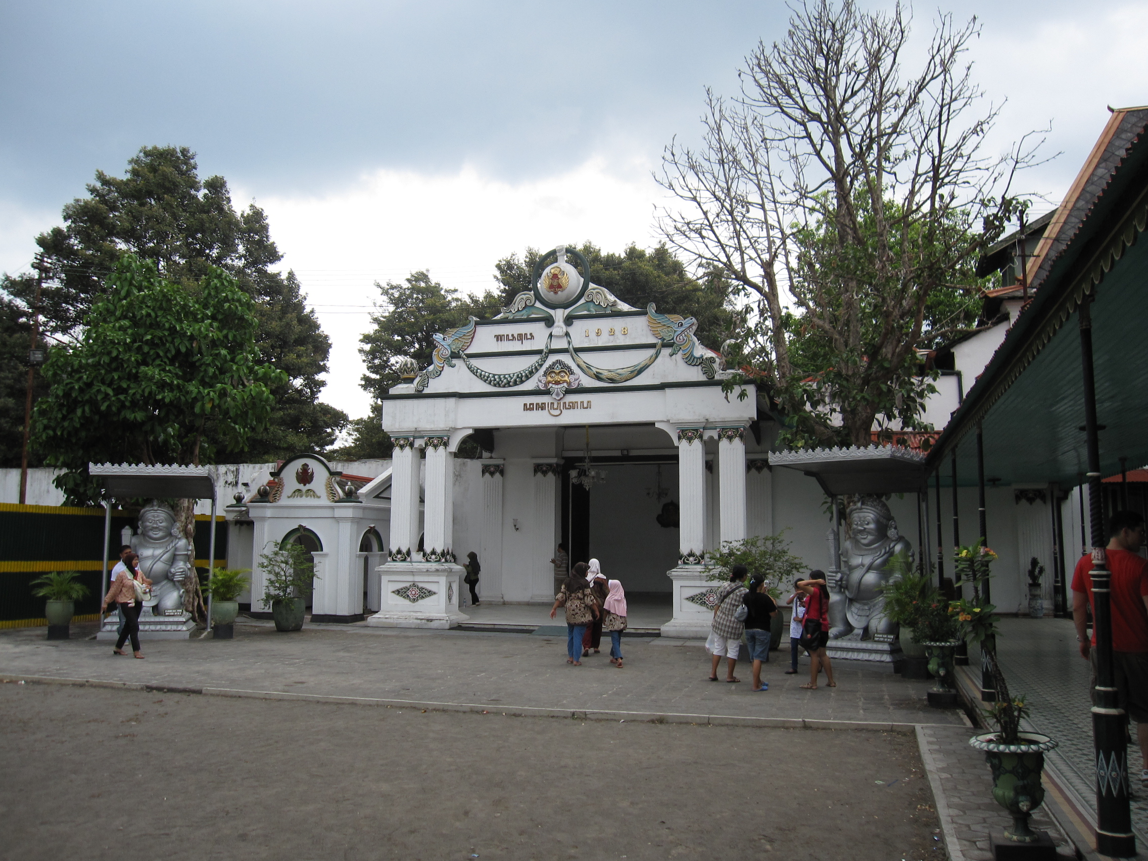 Kraton of Yogyakarta, Indonesia